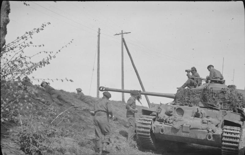 The British Army in North-west Europe 1944-45 A Comet tank of the 2nd Fife and Forfar Yeomanry, 11th Armoured Division, and infantry of the 1st Herefordshire Regiment on the banks of the River Elbe at Hoopte near Winsen, 20 April 1945.